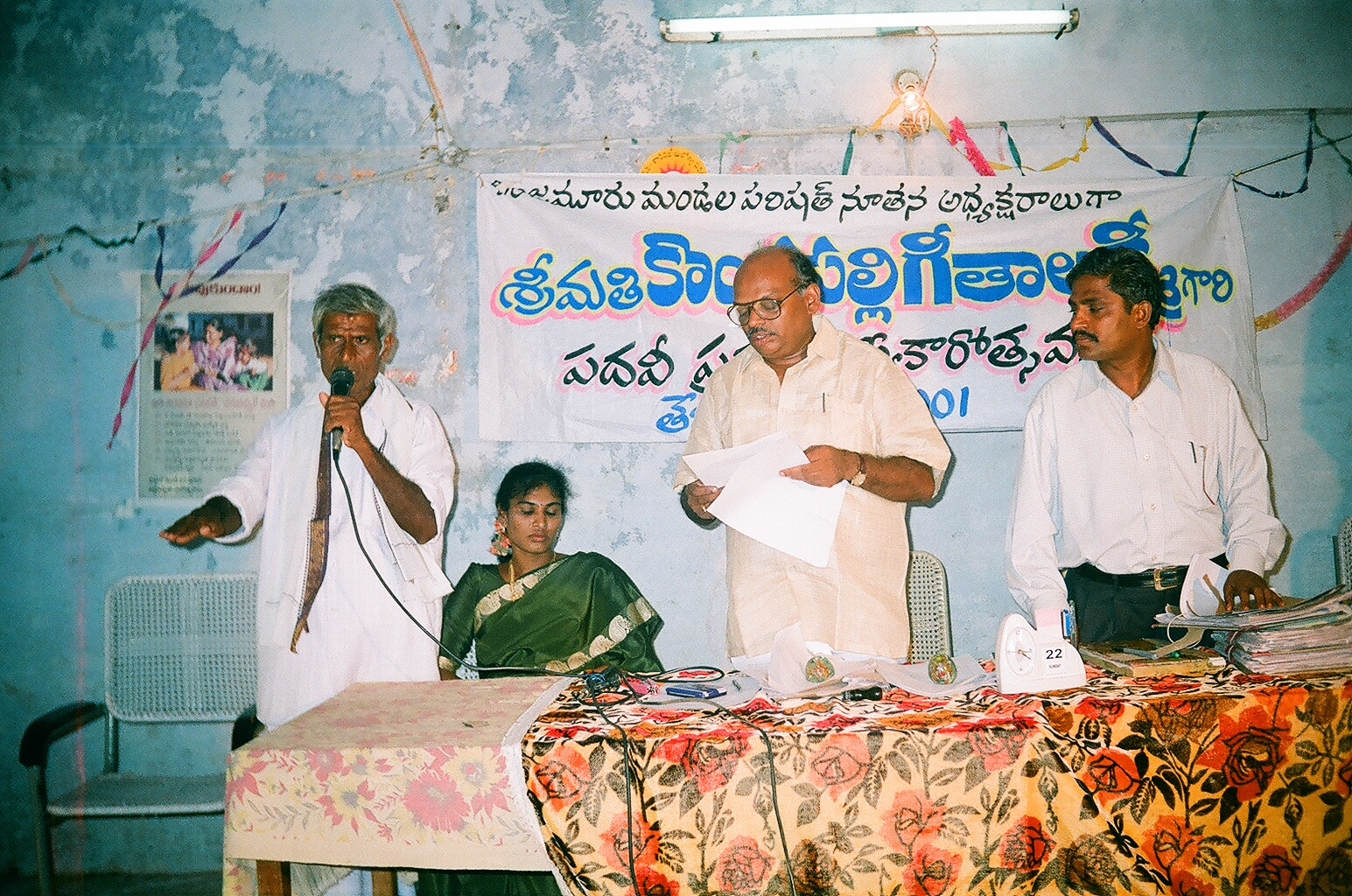 MPTC Members administer an oath